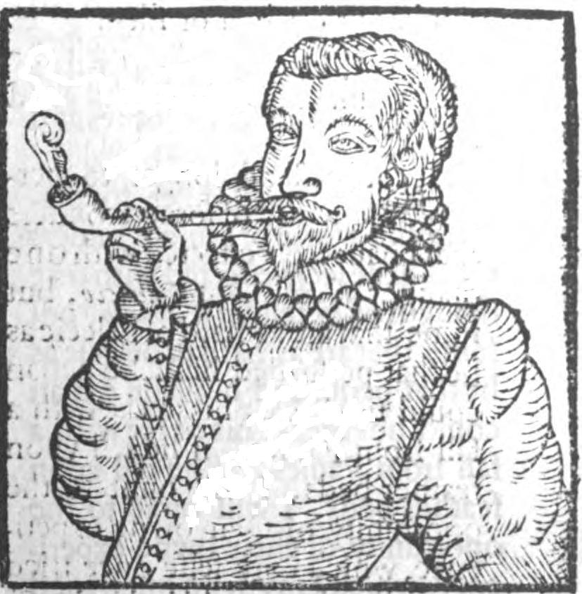 First known image of a man smoking, from Chute's pamphlet "Tabaco"